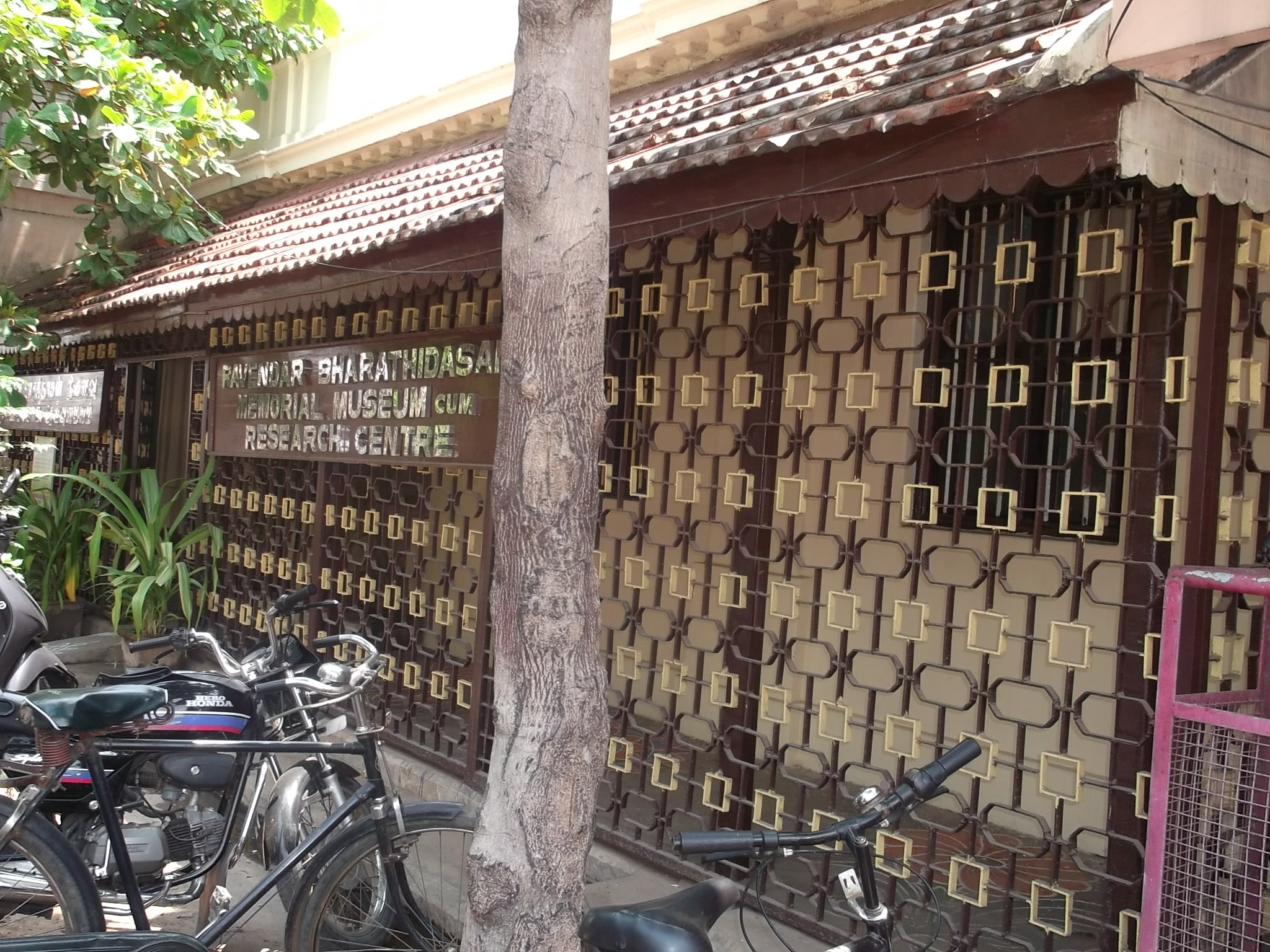 The Bharathidhasan Museum, on No. 95 Perumal Koil Street, is the former house of the Pondicherry-born poet and playwright - Bharathidasan (1891–1960) (meaning "Disciple of Bharathi"). Bharathidasan's poems compare with Bharathi's in literary achievement and poetic fervour. He also wrote scripts for films on issues such as Dravidian culture and the rights of women. HIS FAMOUS THAMIZH THAI VAAZHTHU IS A FAMOUS ONE.NOW IT WAS SUNG BY ALL STUDENTS OF PUDUCHERRY UT.